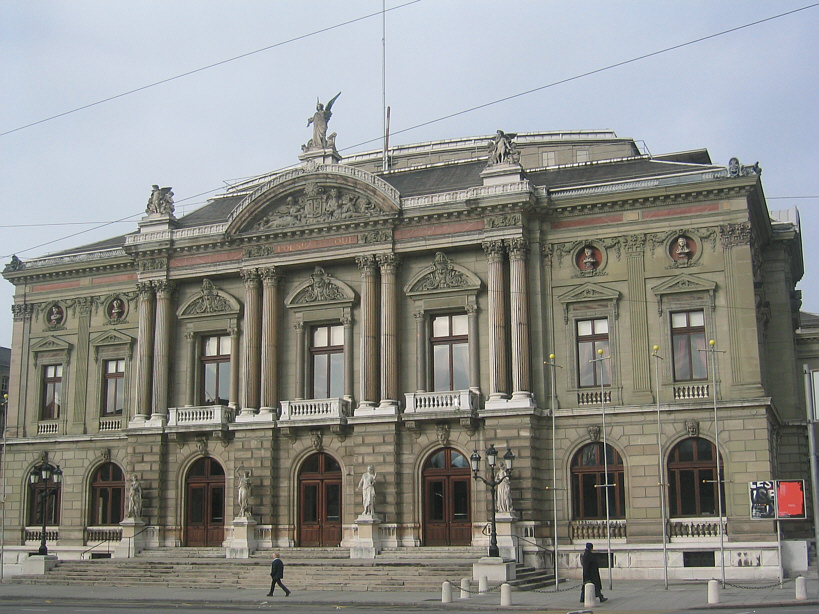 Genève, Switzerland: Grand Théâtre (Opera House)